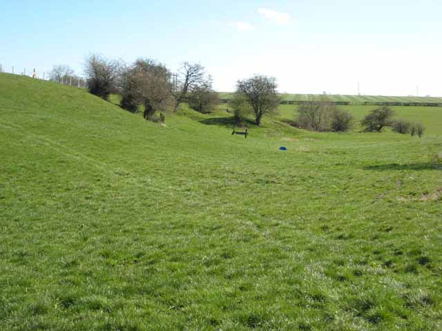 Woodham Medieval Village These low mounds by the banks of the Woodham Burn are all that remains of a medieval village at Woodham. The current village of Woodham forms part of Newton Aycliffe new town.